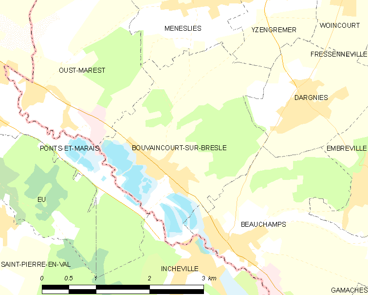 Map of French municipality Bouvaincourt-sur-Bresle